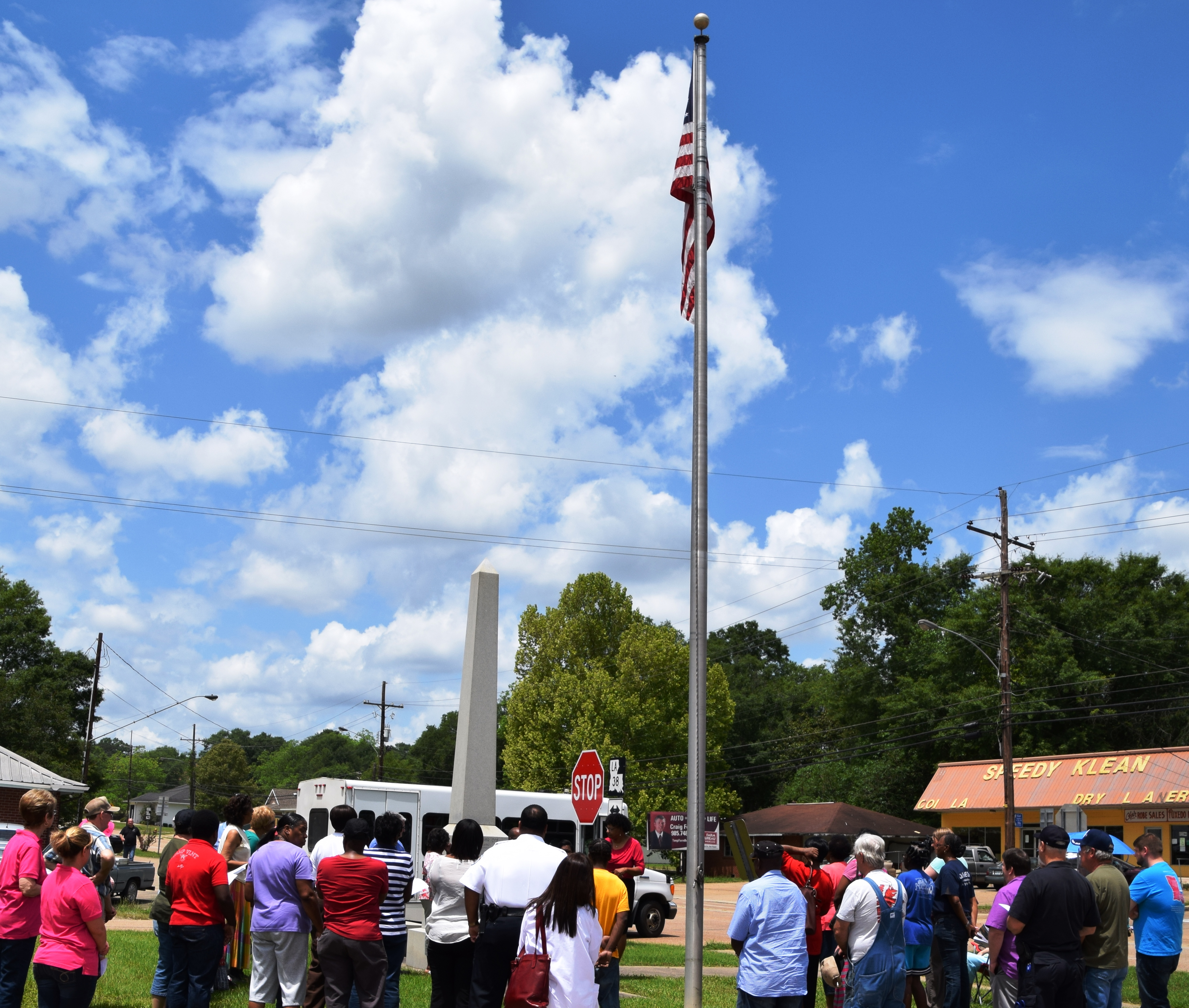 Kentwood residents gather outside the Town Hall alongside LA 38 for a noontide Day of Prayer in 2015.